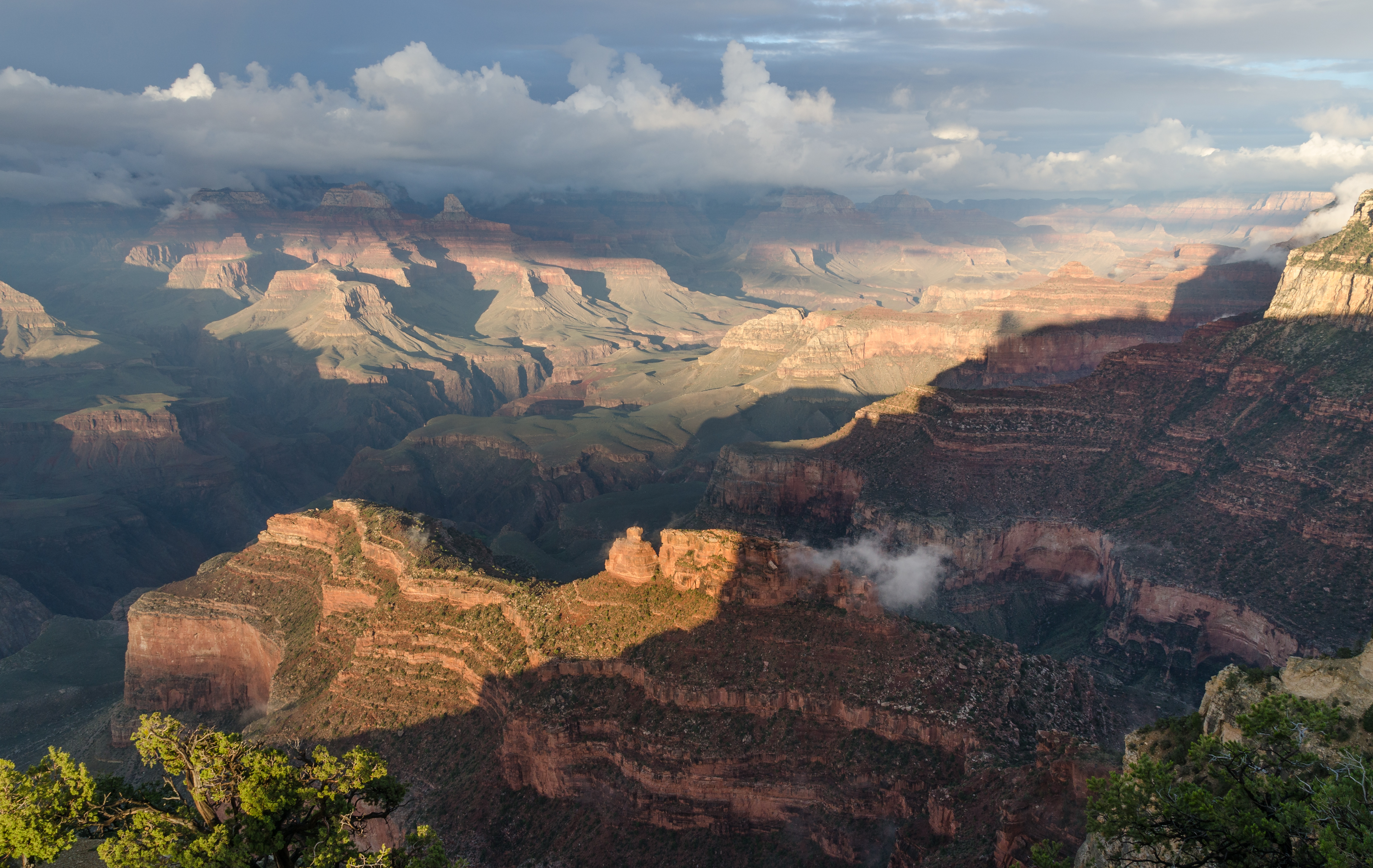 Grand Canyon South Rim photographed from Powell Point with warm evening light